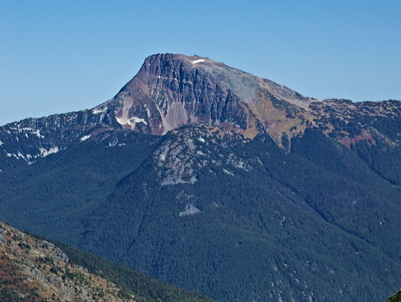 Mount Outram in British Columbia as seen from Eaton Peak